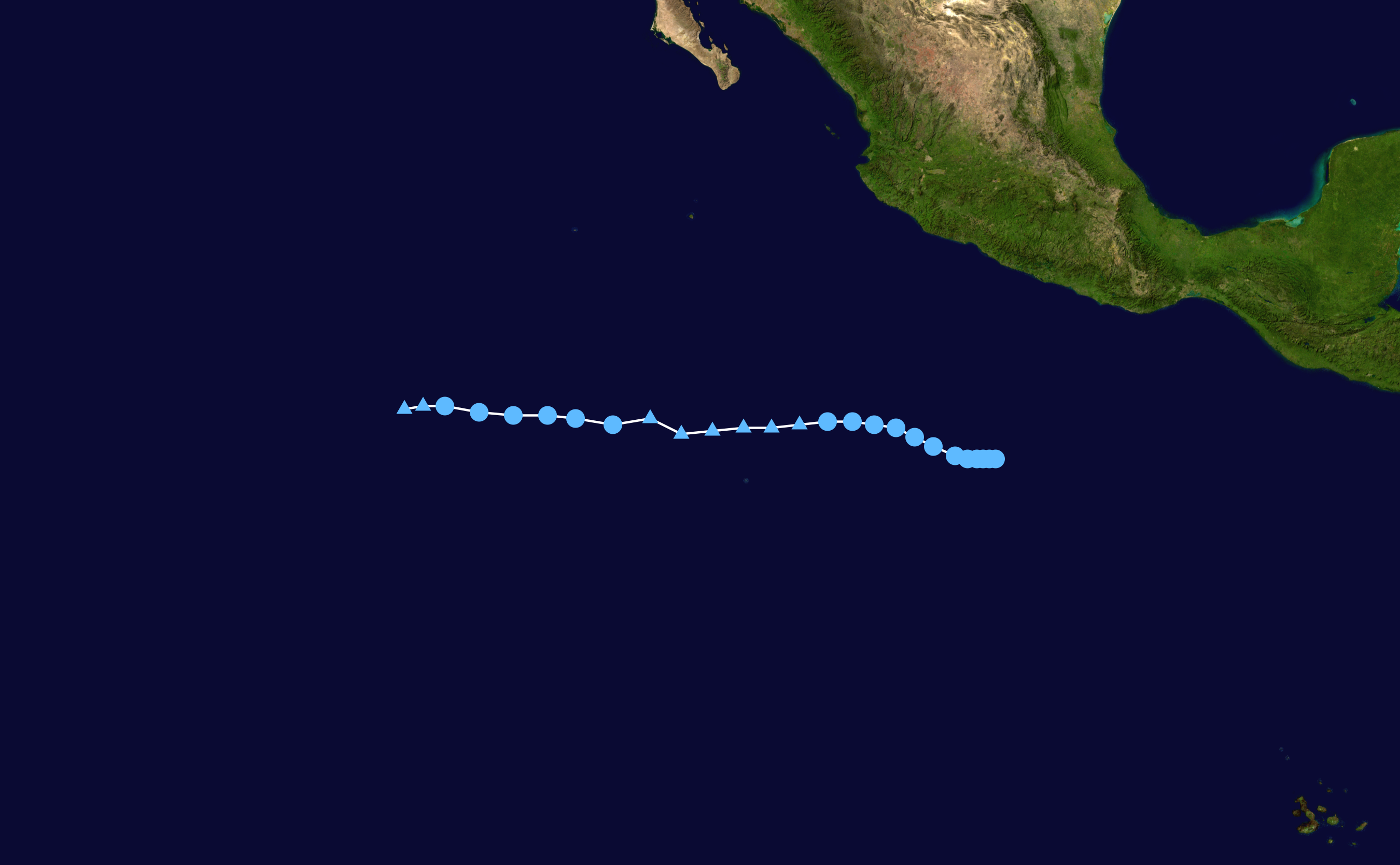 Tropical Depression Sixteen-E (2005) track. Uses the color scheme from the Saffir-Simpson Hurricane Scale.